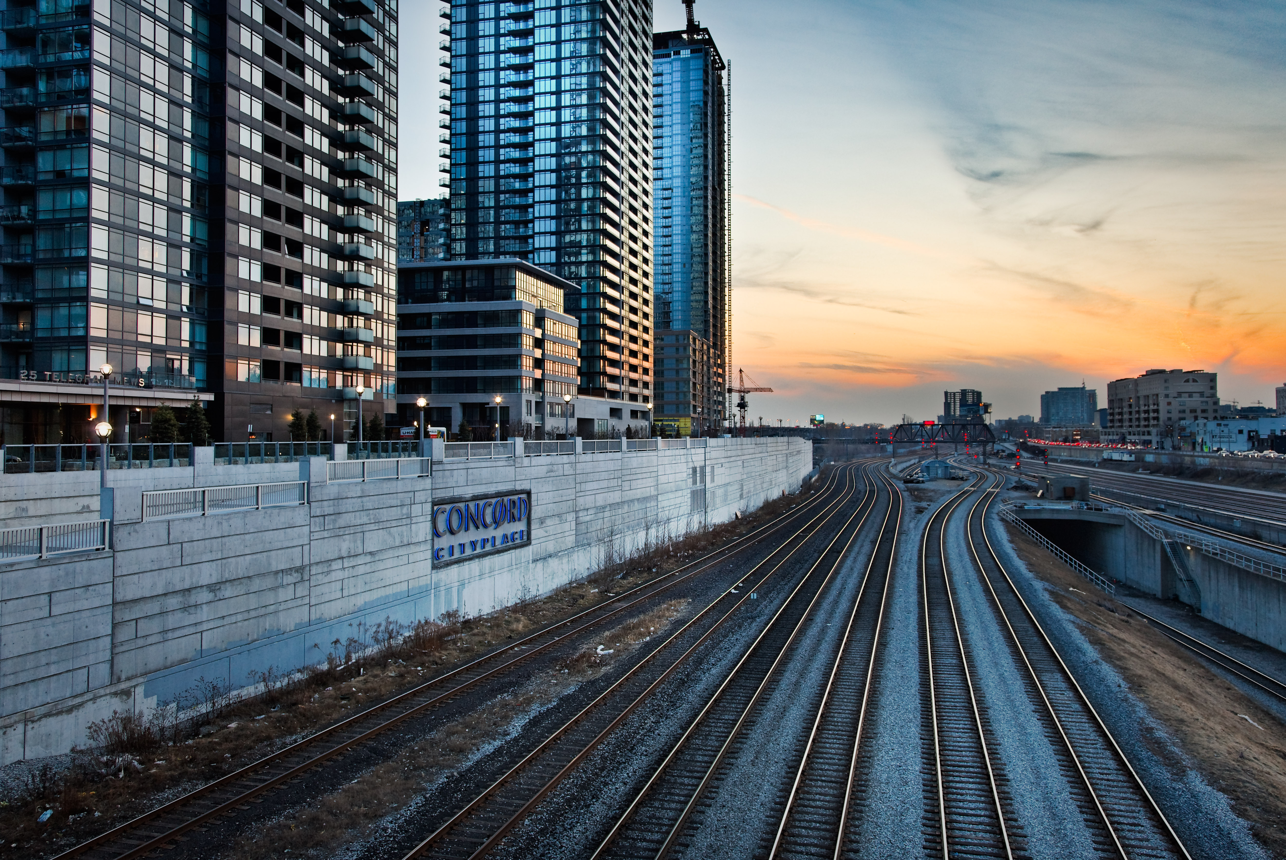 Train tracks at Spadina and Front Street, Toronto, Ontario, Canada.